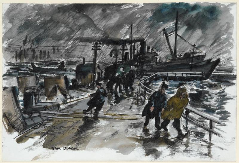 A Sou'wester during Combined Operations Training image: A wind-swept jetty in stormy weather with a ship docked at the end. The sea is rough and the sky is very dark and low. There are several servicemen struggling to walk along the jetty in raincoats and hats.